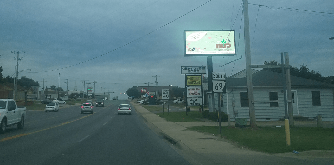 Arkansas Highway 69 in Batesville. This is just east after the US 167 junction. Photo taken on 12/9/2017